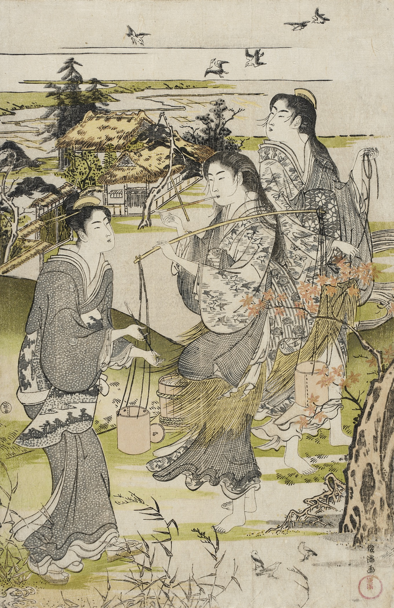 Japan, circa 1787 Series: The Six Tama Rivers, c. 1787 Prints; woodcuts Color woodblock print Image and Paper: 14 15/16 x 9 7/8 in. (37.9 x 25.0 cm) Gift of Mr. and Mrs. Nathan V. Hammer (54.50.7) Japanese Art